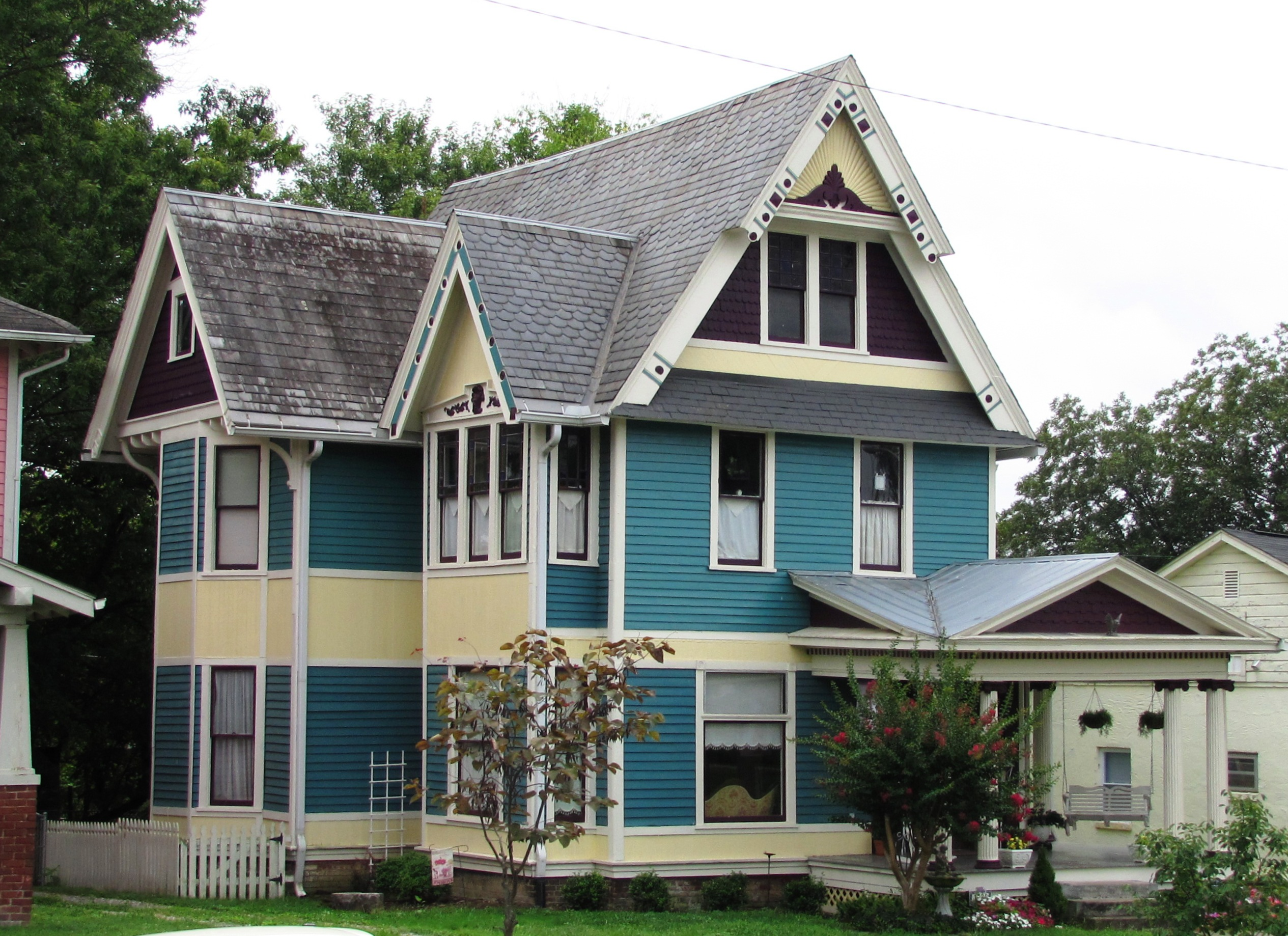 The W. O. Haworth House (1724 Washington Avenue) in the Parkridge community of Knoxville, Tennessee, USA. Built in 1889, and designed by architect George Barber, the house is now a contributing property within the NRHP-listed Park City Historic District. The columned porch was added in 1907.